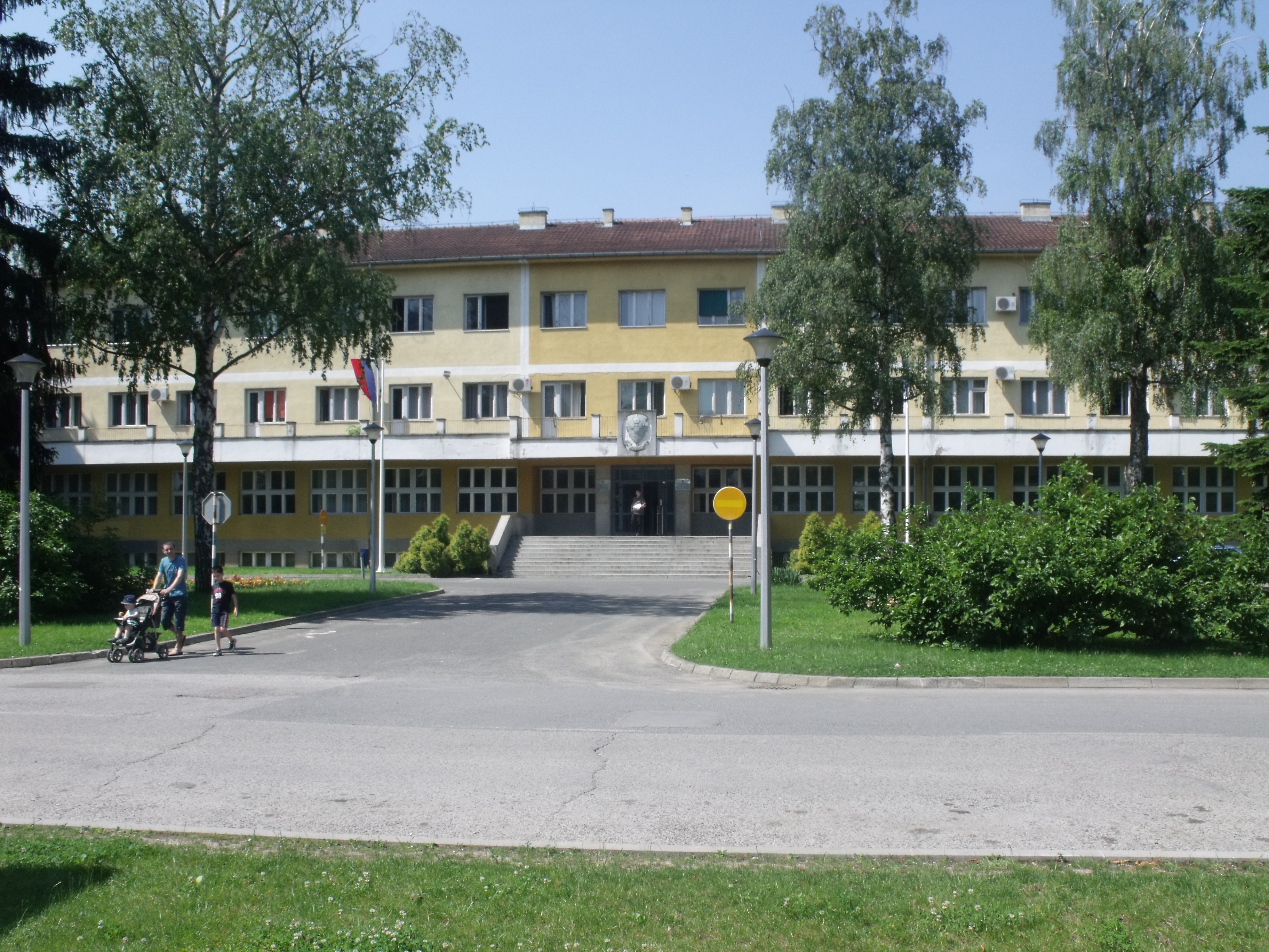 Dobojska Opstina